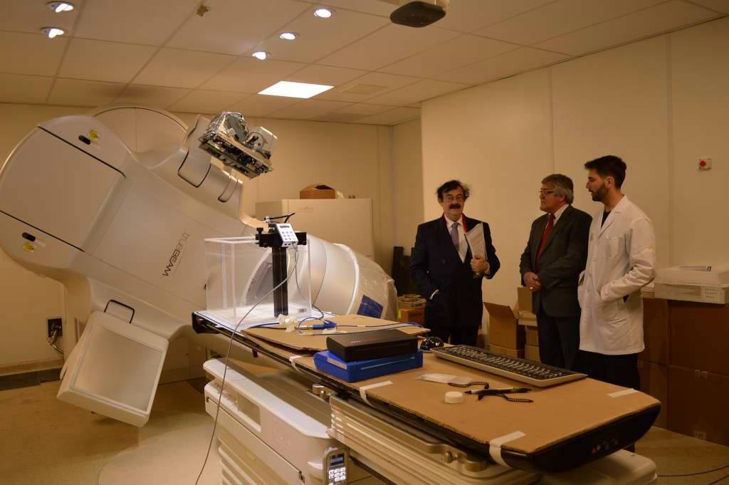 Assessing visit to the premises of the Molecular & Nuclear Medicine Centre (CEMENER), built by the Entre Ríos Province´s Institute of Social Assitence (IOSPER), the Argentine Republic Comission of Atomic Energy (CNEA), and the Government of the Province of Entre Ríos. From right to left: physicist-physician Federico Bregains, the President of IOSPER public accountant Isaías Fernando Cañete, and scientist Prof. Dr. Mario Crocco